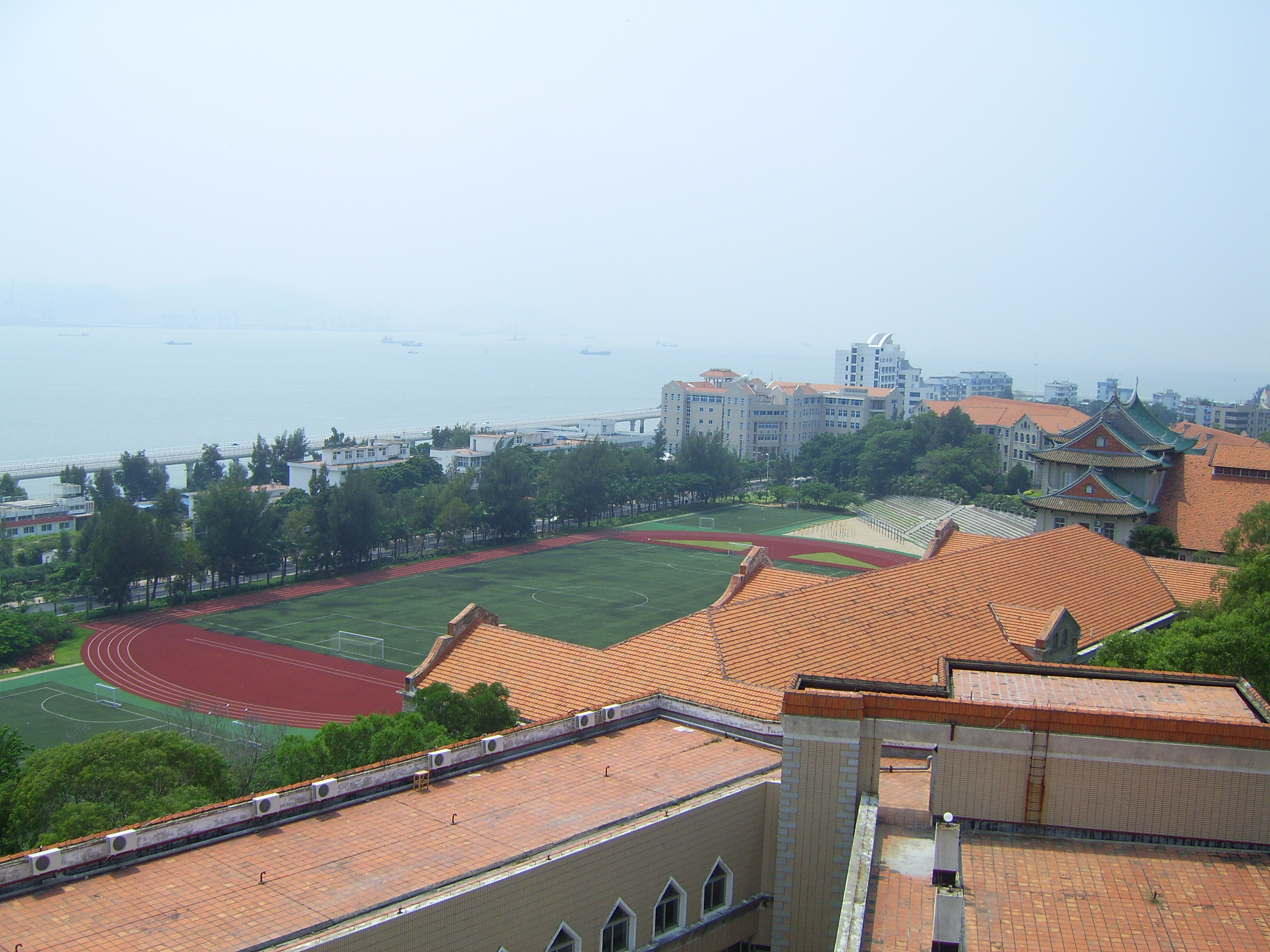 Xiamen University playground